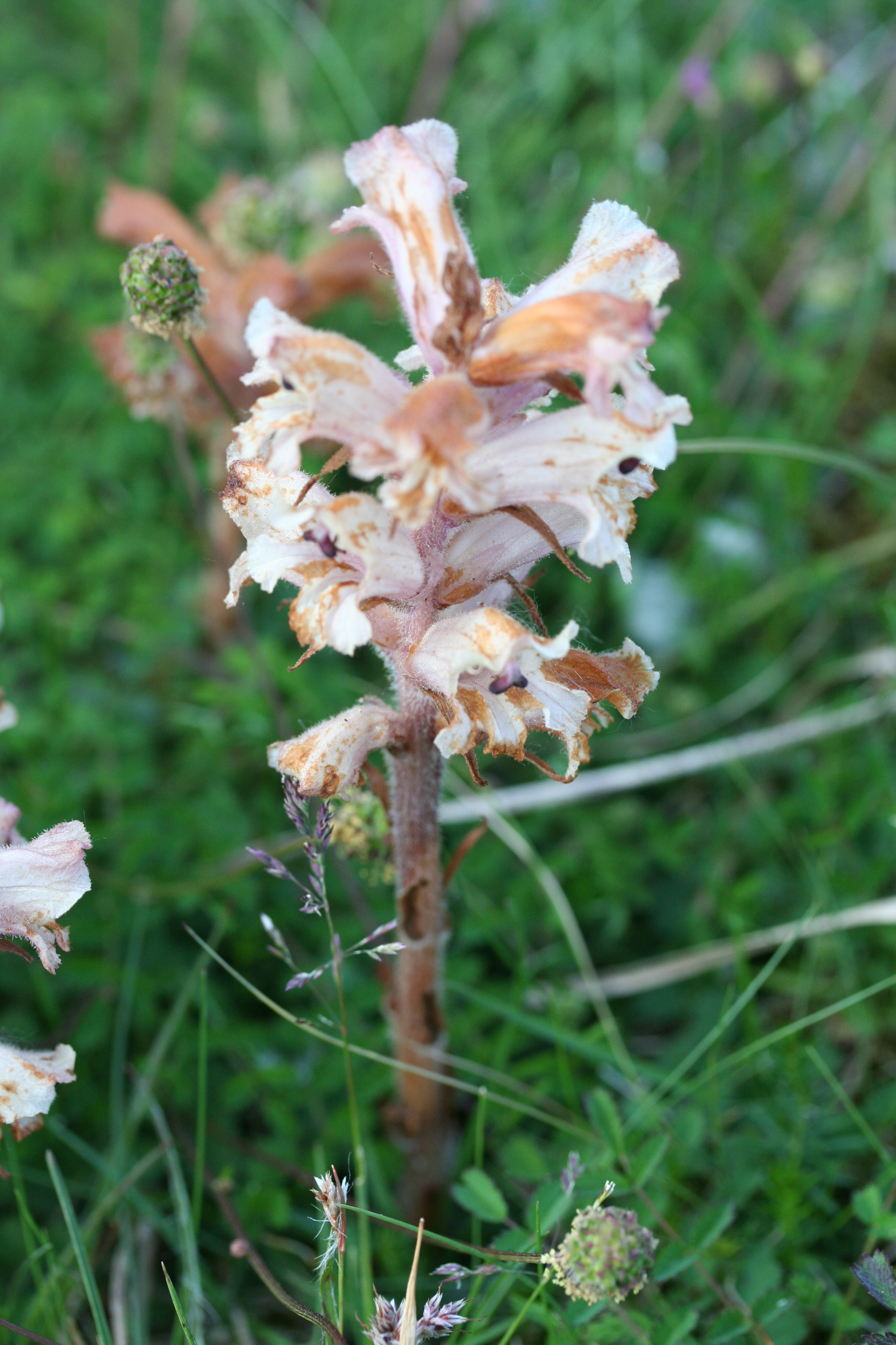 Orobanche minor 7 Juni 2006 IJmuiden, the Netherlands